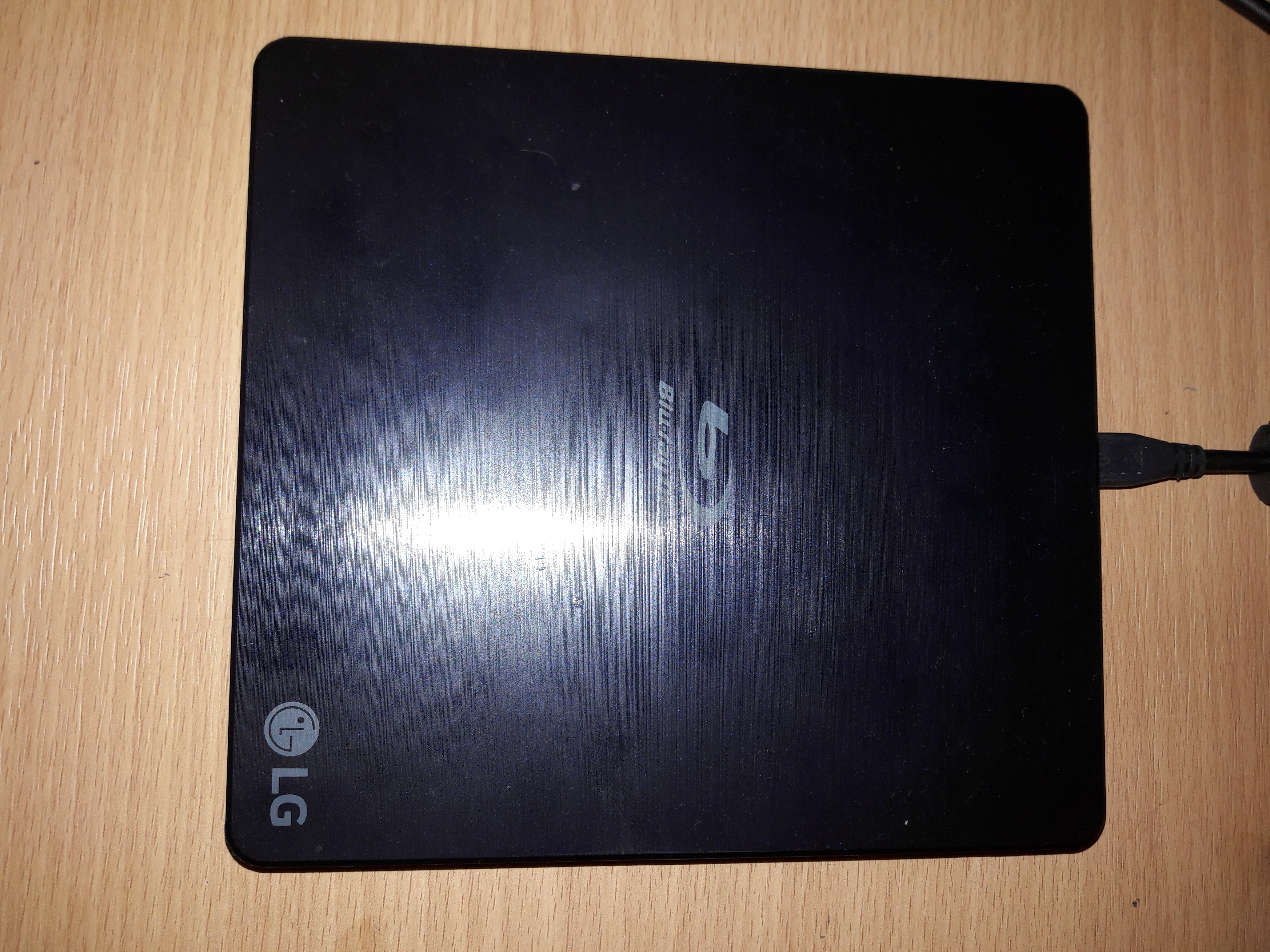 LG Blu-ray disc writer.